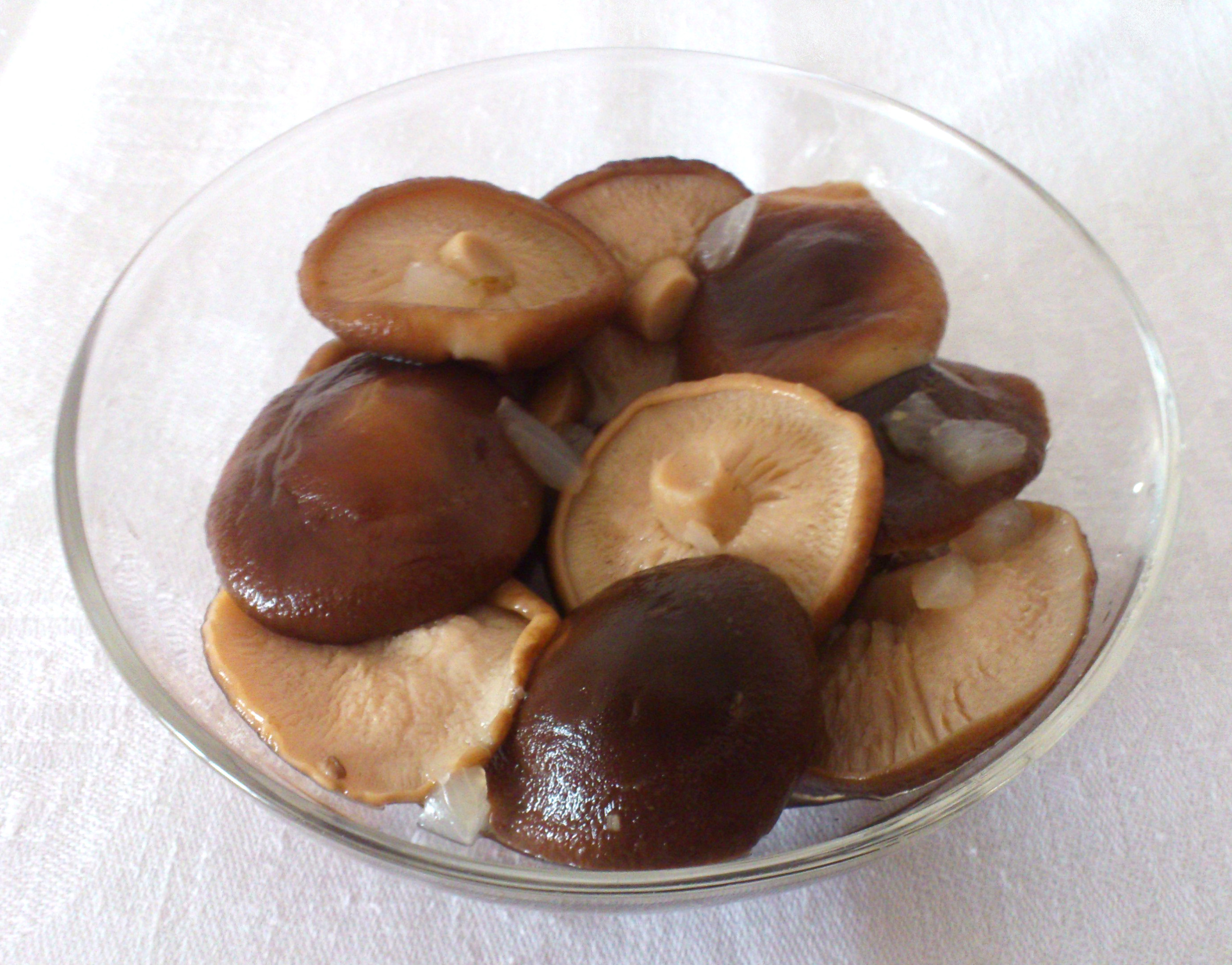 Pickled shiitake mushrooms, Russian style